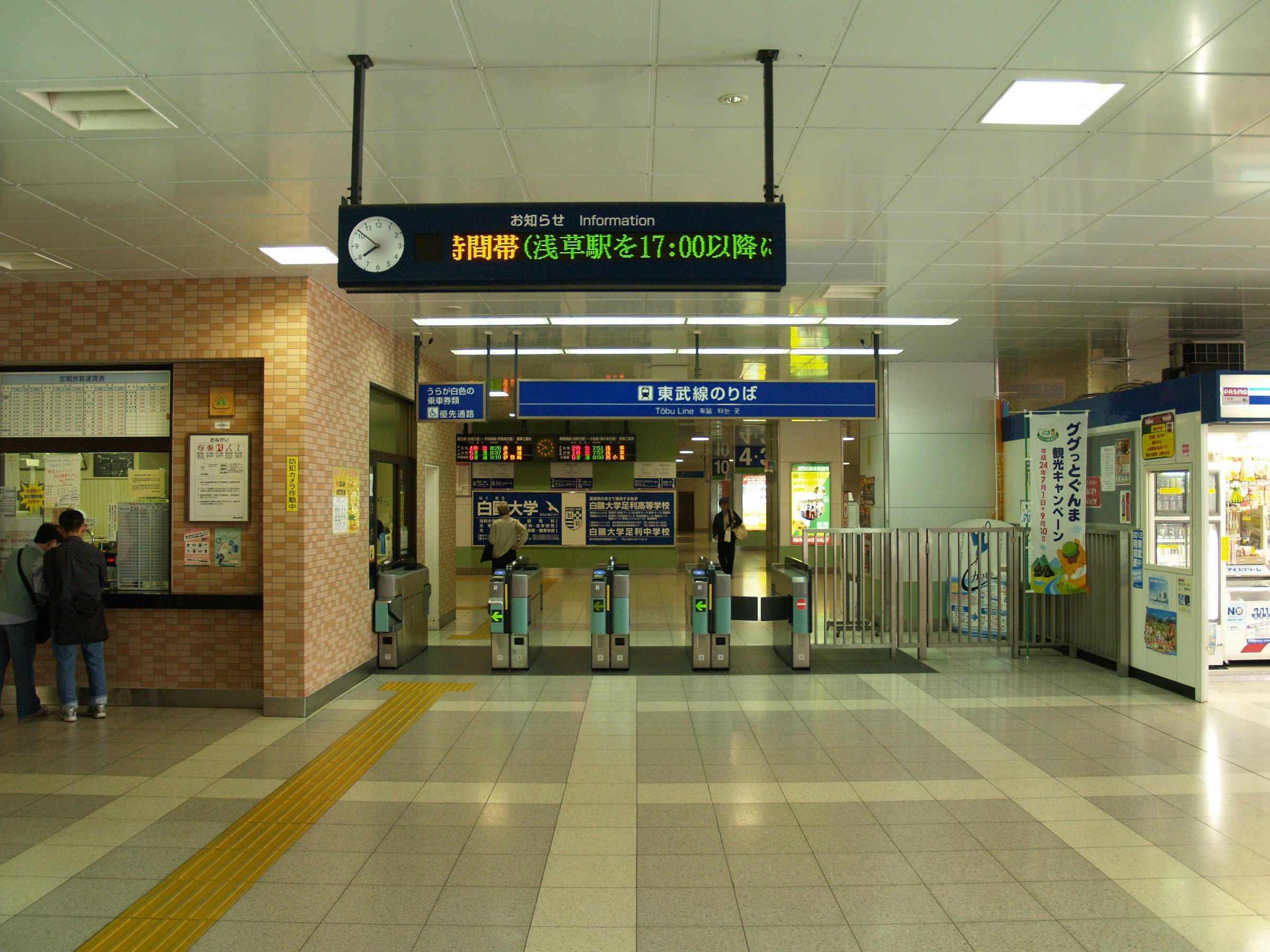 Ticket gate of Ōta Station (Gunma)